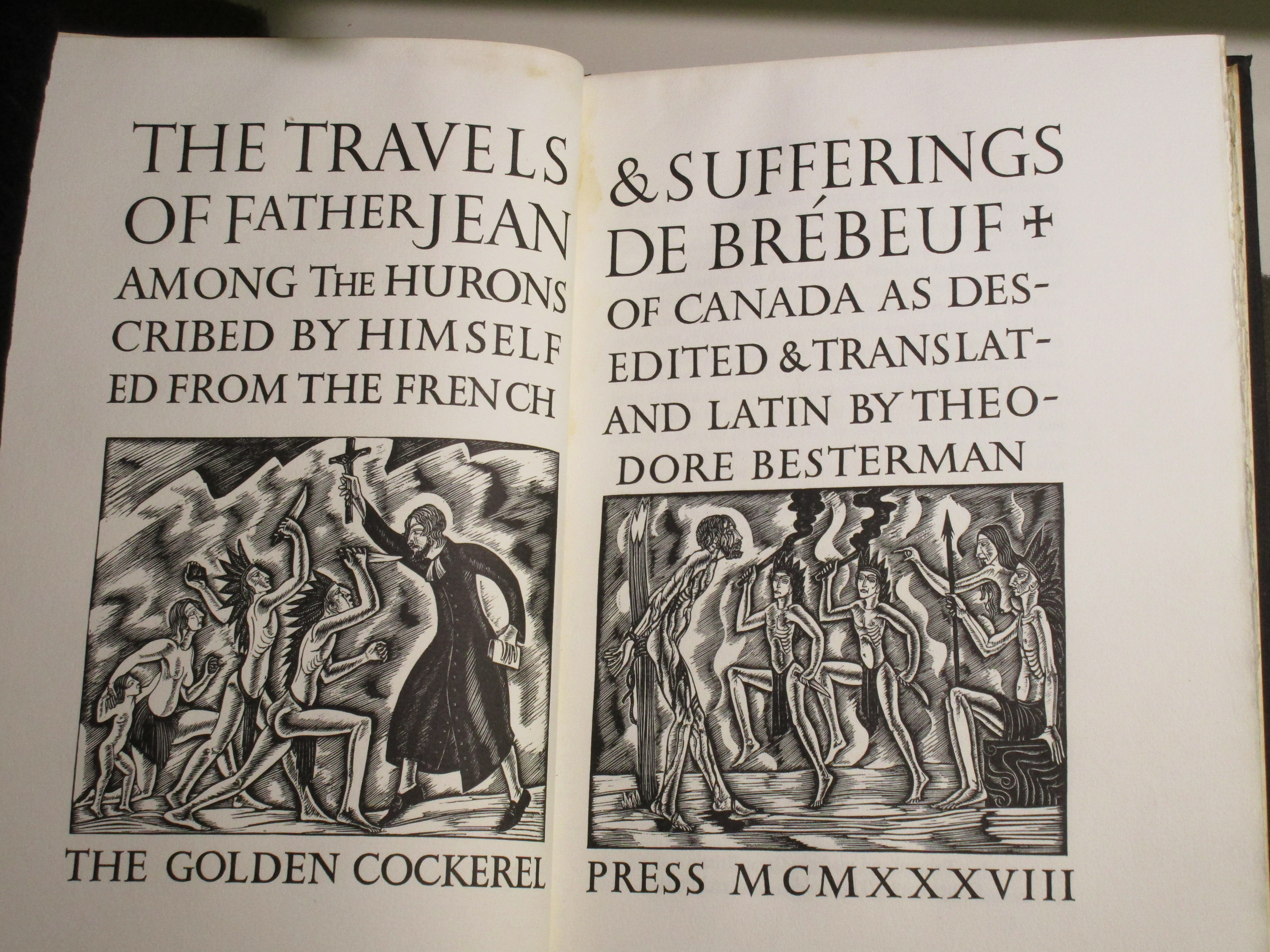 All images from this book COPY Repository: Penn Libraries Call number: Folio F1030.7 .B75 1938 Collection: Dechert Copy title: Travels & sufferings of Father Jean de Brébeuf among the Hurons of Canada Author(s): Brébeuf, Jean de, Saint, 1593-1649 Published: London, 1938 Printer/Publisher: Golden Cockerel Press FIND IN POP Penn Libraries Folio F1030.7 .B75 1938 Penn Libraries Dechert Brébeuf, Jean de, Saint, 1593-1649 London 1938 Golden Cockerel Press Title Page (non-evidence)